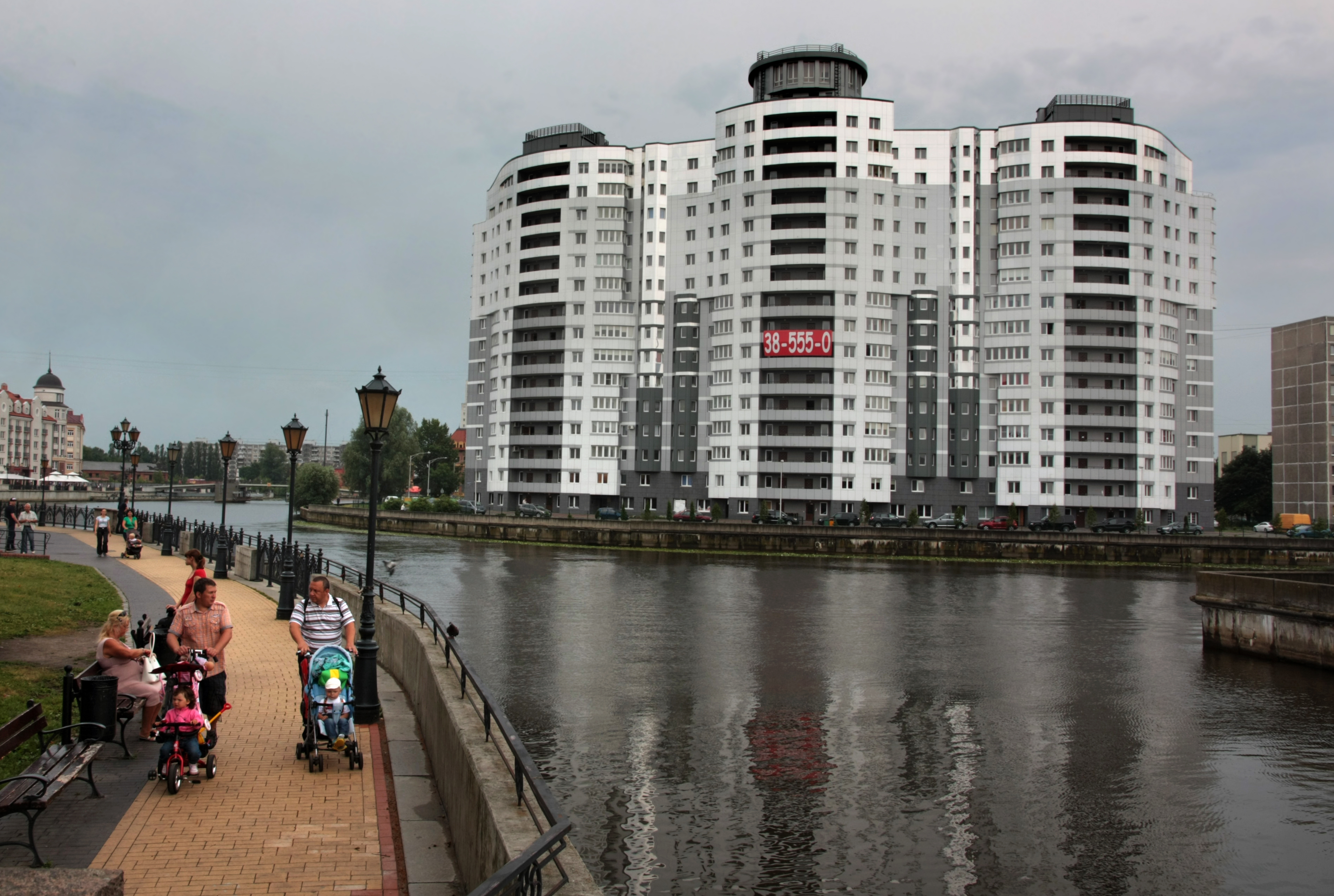 The Pregolya river in the Kaliningrad,Russia